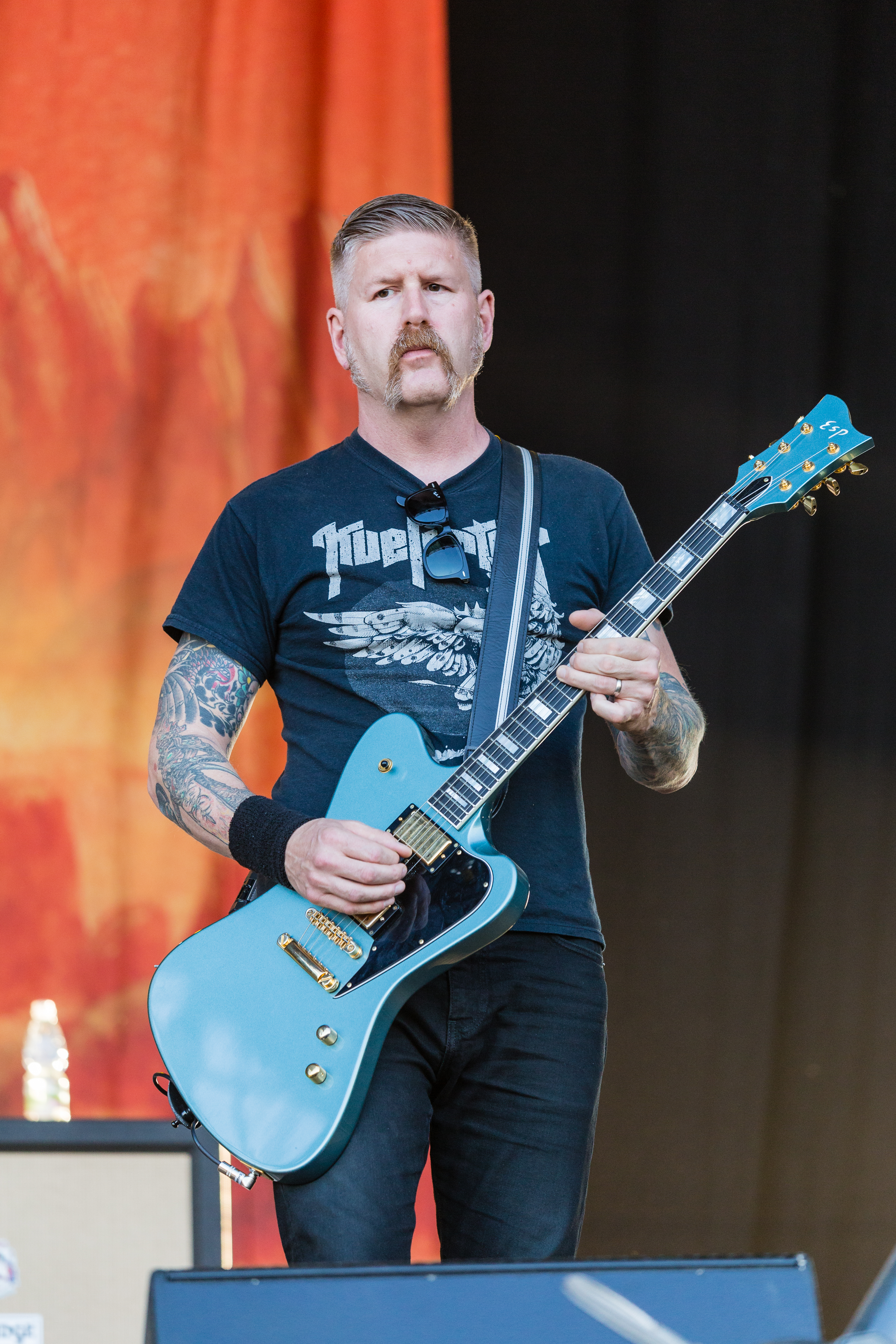 Nova Rock 2017 Bill Kelliher from Mastodon at the Nova Rock 2017